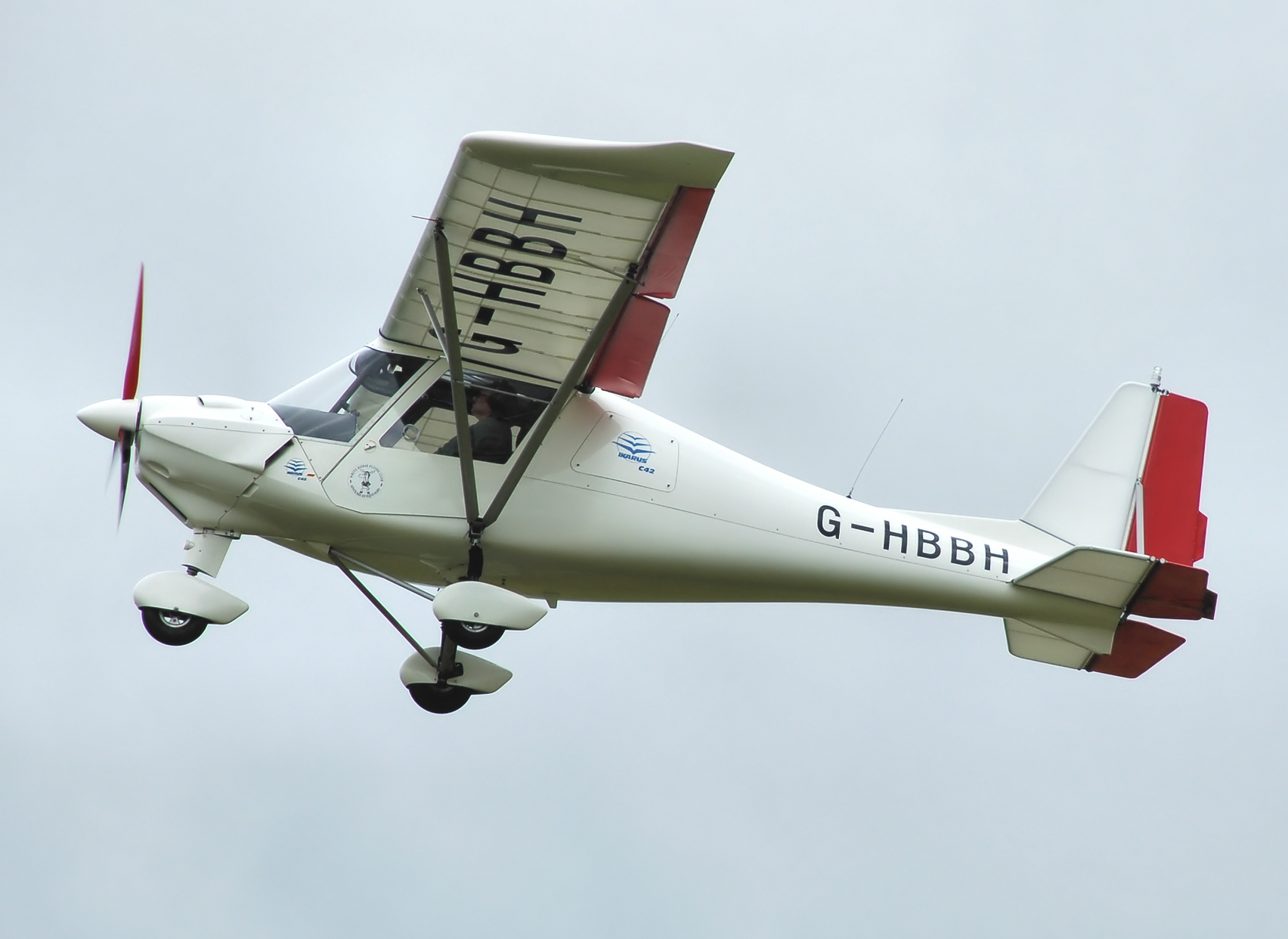 COMCO-IKARUS Ikarus C-42 FB100 ultralight aircraft (G-HBBH) , built 1999, at Kemble Air Day 2009, Kemble, Gloucestershire, England.